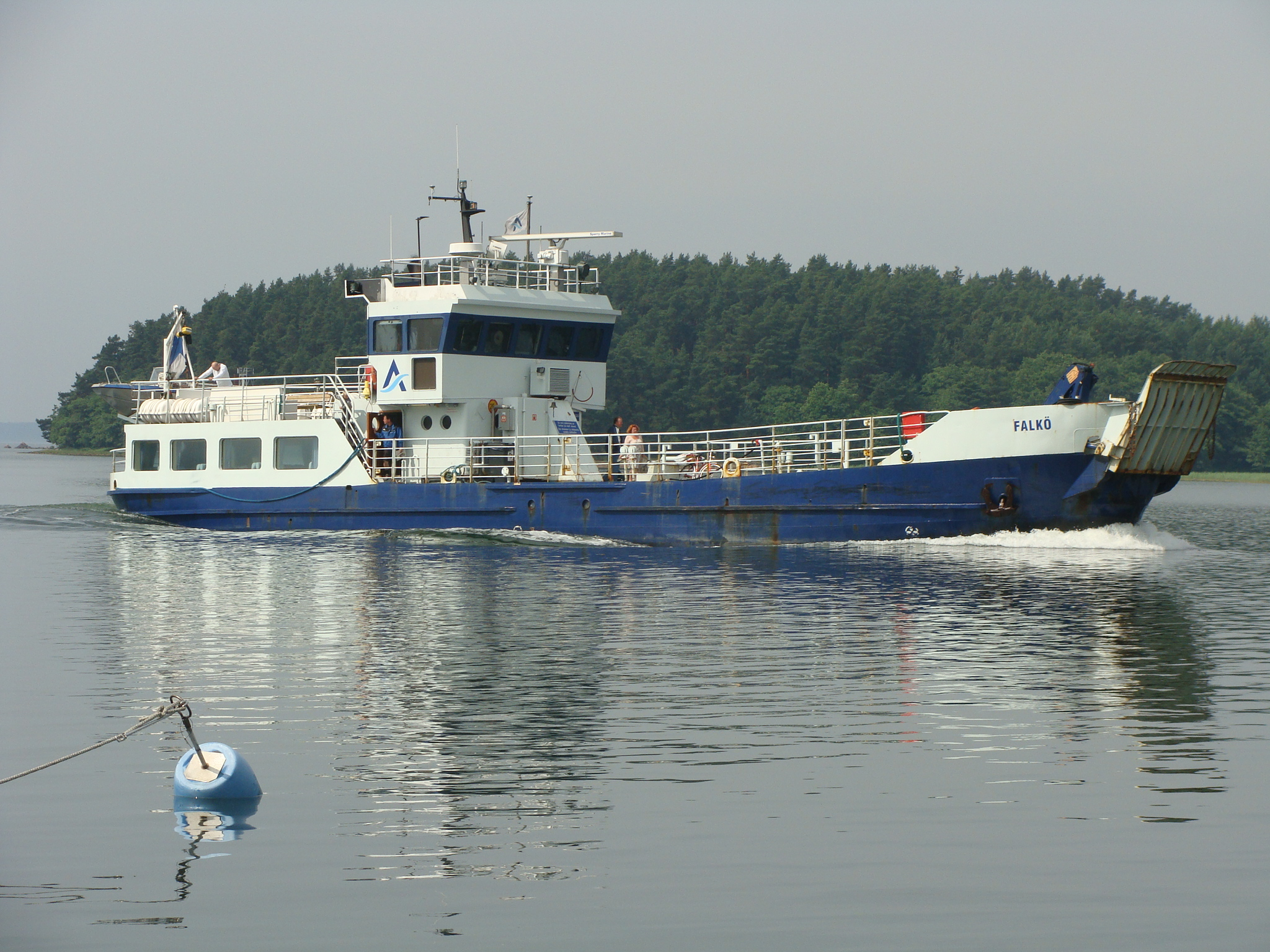 Archipelago ferry M/S Falkö approaching Innamo island in Archipelago Sea in Finland.